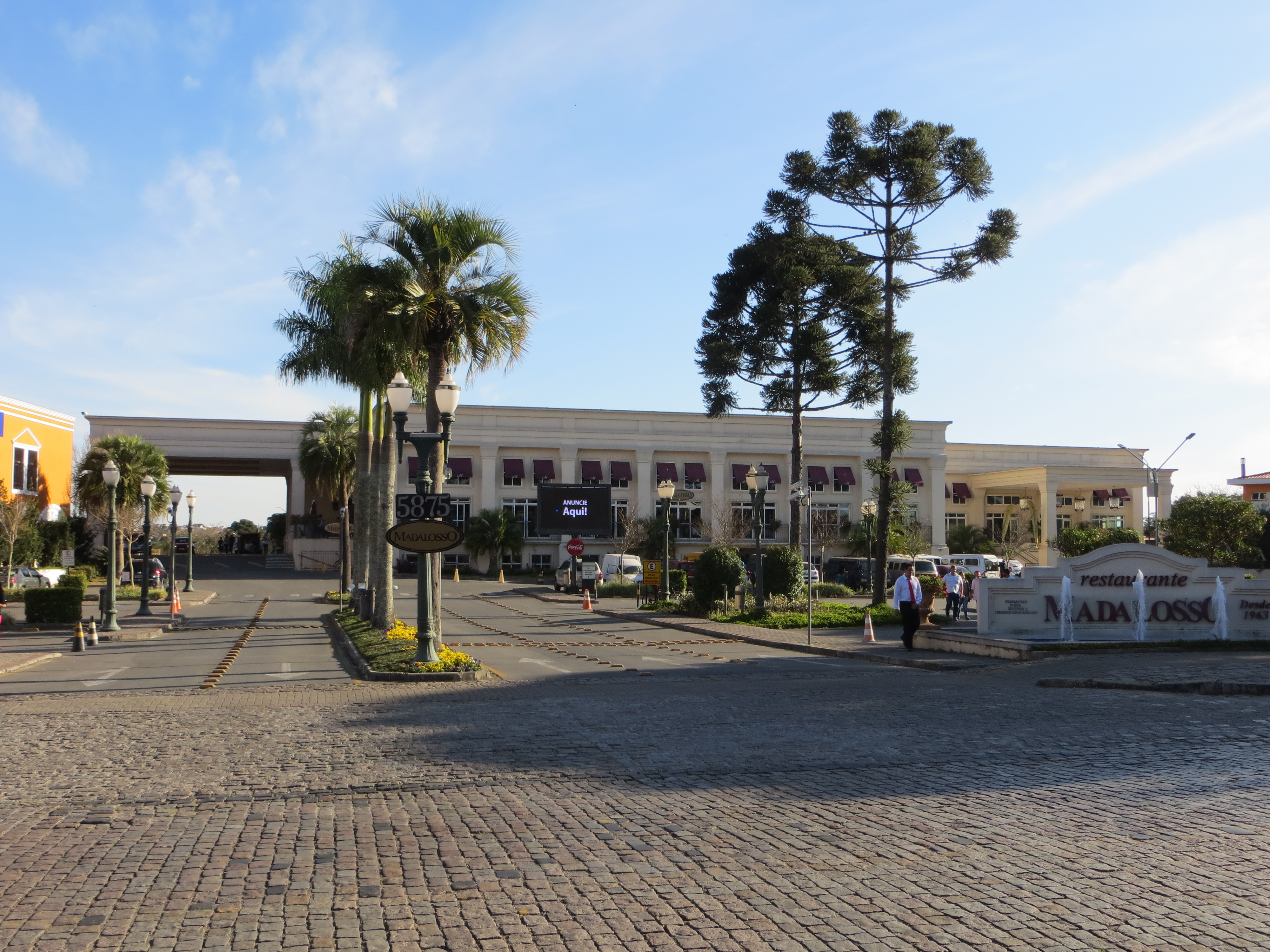 The "New Madalosso", opened in 1970 and which now has a total of 4,645 places in an area of 7,671 square meters. These figures won him inclusion in the Guinness Book, the Book of Records with the title of "Greatest of the Americas." Free parking for 900 vehicles.